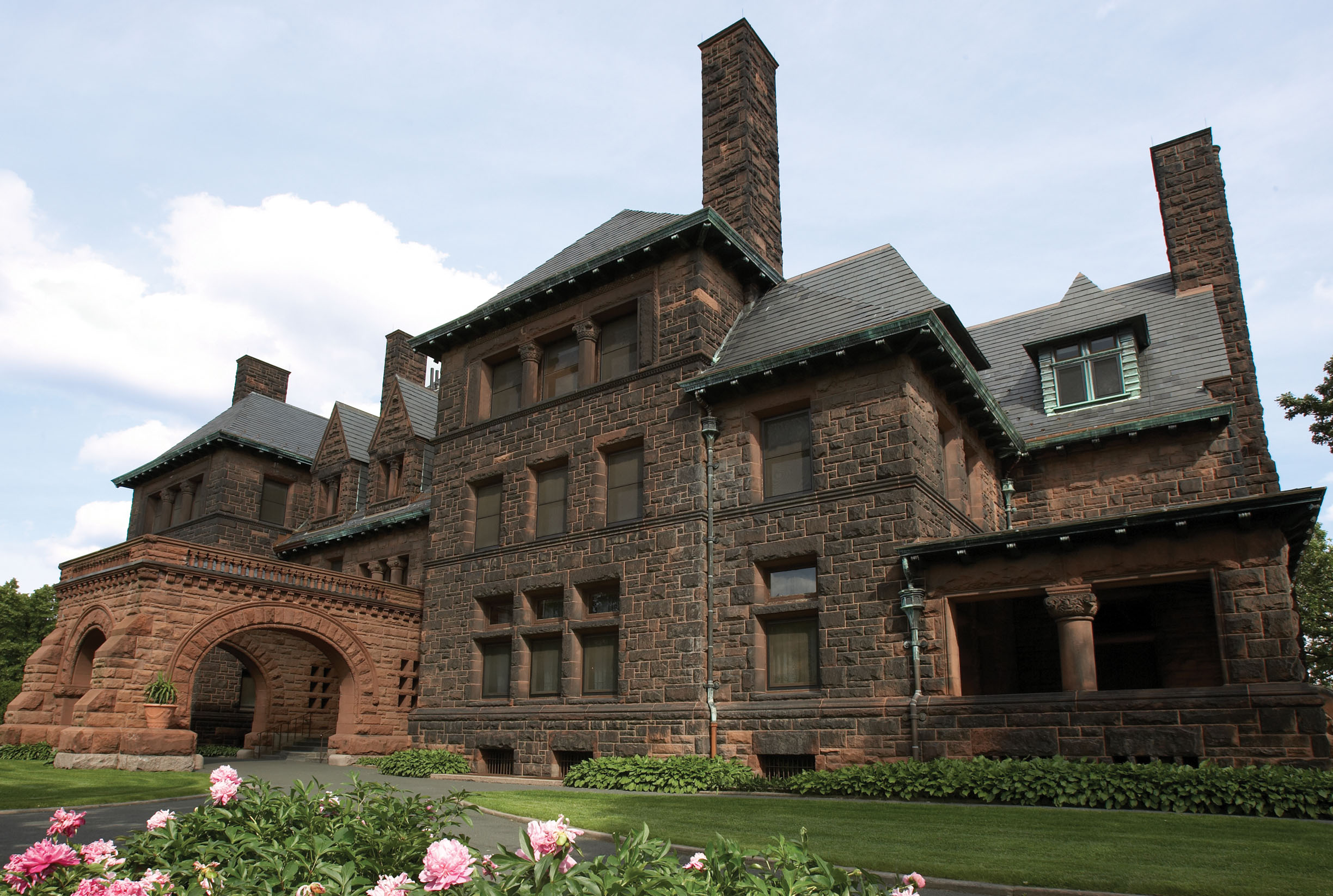 James J. Hill House in St. Paul, MN